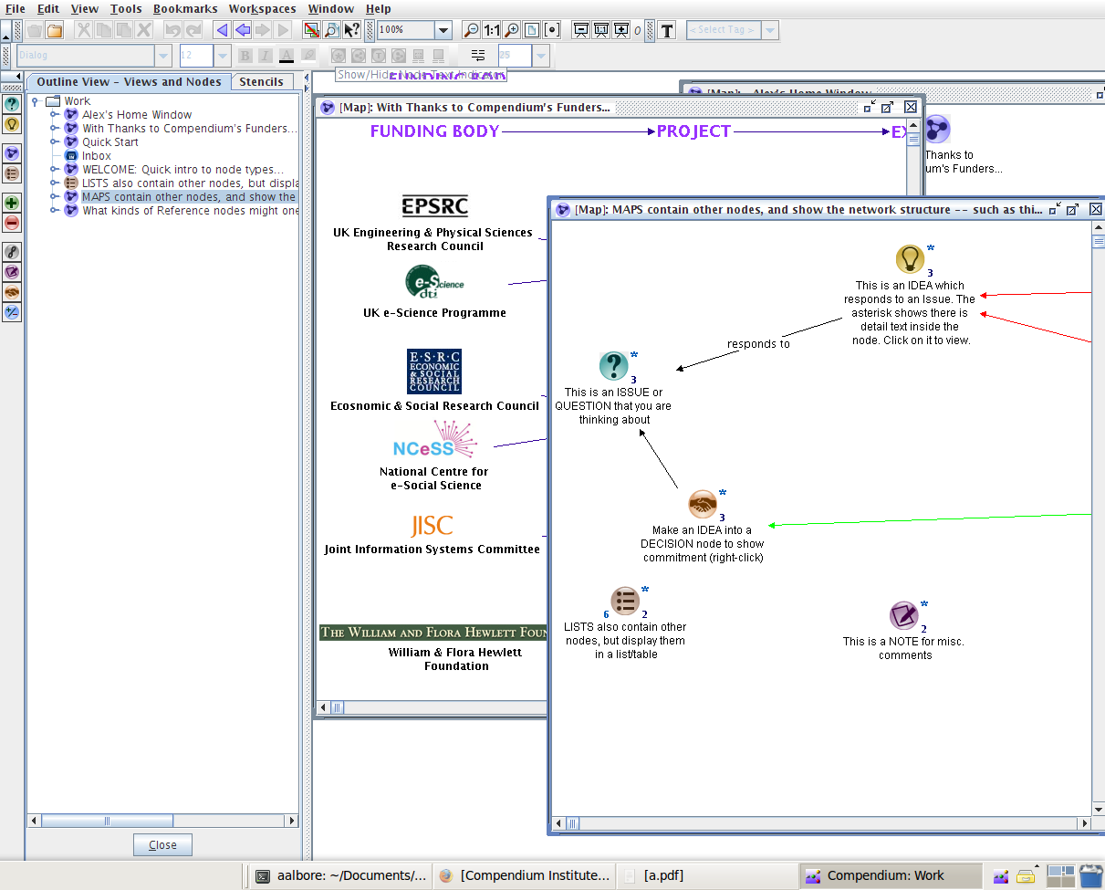 Screenshot of the mind mapping software Compendium, from the Compendium Institute (Open University)